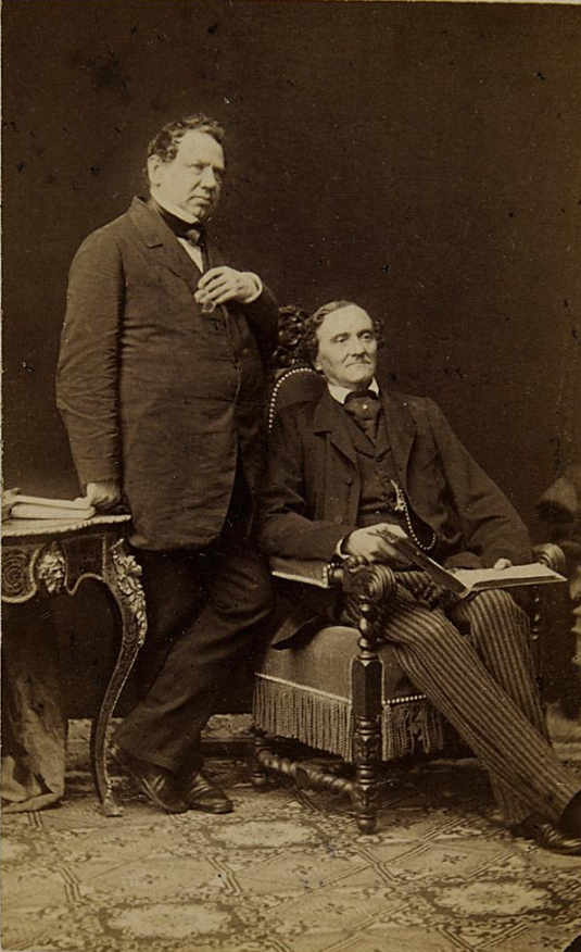 Austrian actors Johann Nestroy (sitting) and Louis (Alois) Grois (standing), photograph bz Ludwig Angerer from 1862